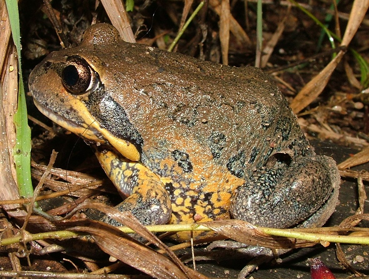 Northern Banjo Frog (Limnodynastes terraereginae)